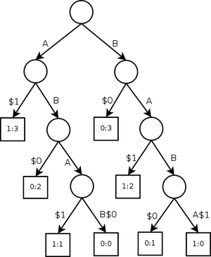 generalised suffix tree with words ABAB, BABA